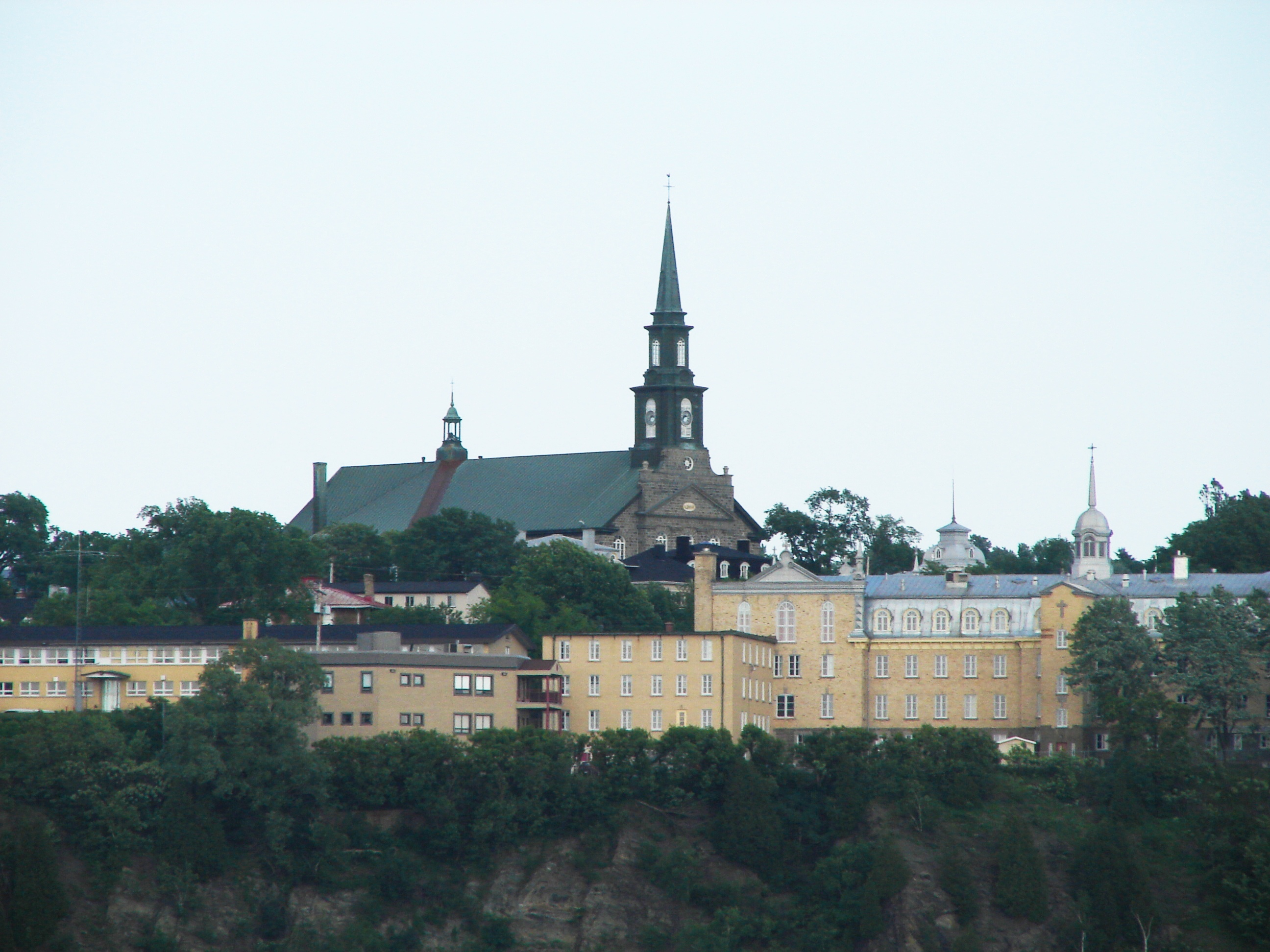 Author: Miguel Tremblay Date: June 17th 2006 Source: Photo taken by me on the ferry between Quebec city and Lévis. Place: Lévis, Québec, Canada.